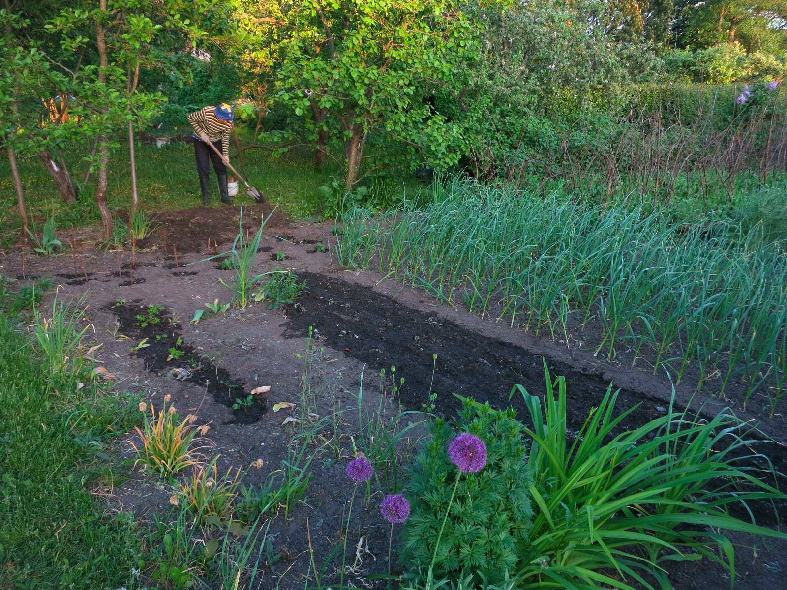 87-year-old gardener is planting common bean plants in her home (hobby) garden in Harju County (Estonia). At the moment, she is making the planting holes. In front of her, the bean plants are planted and watered already. Long bed of recently sown and watered beans is in the middle of the picture. Garlic (aqua green) and pea (equipped with supporting old tree twigs) grow right from the bean bed.